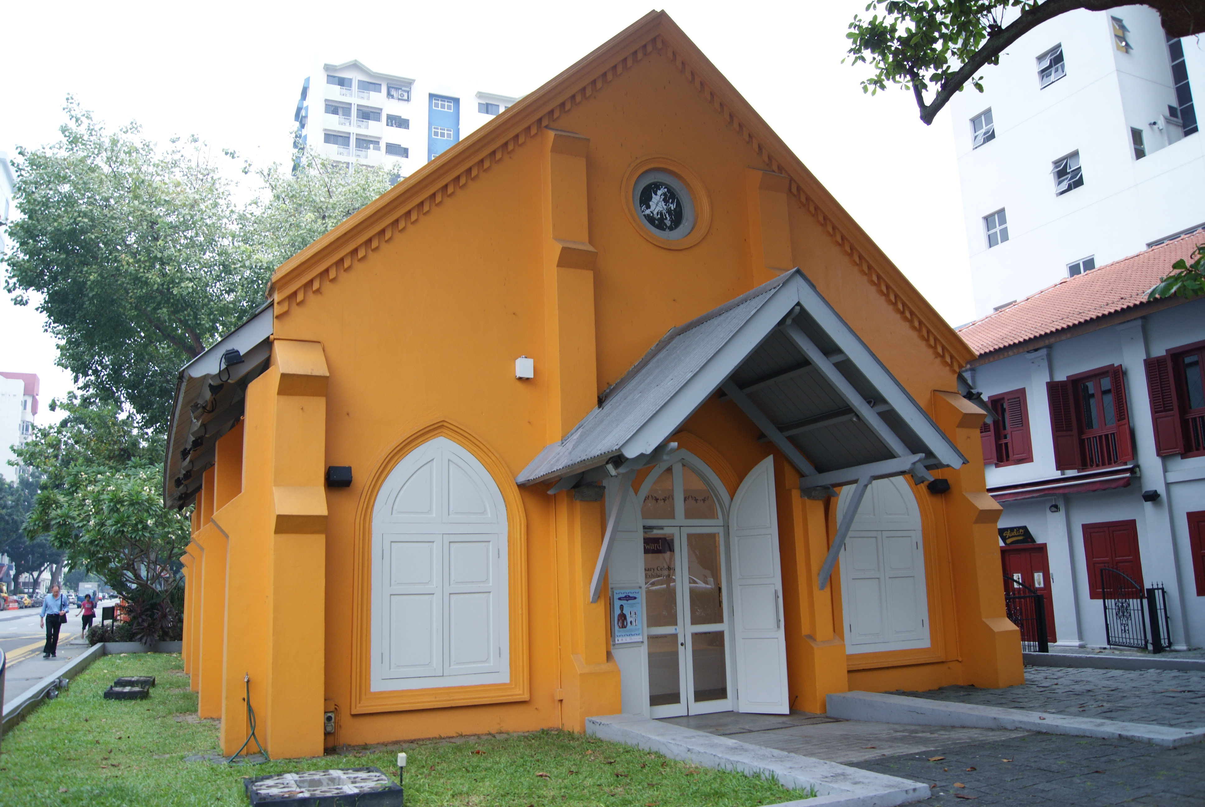 The Chapel of Sculpture Square, Singapore.